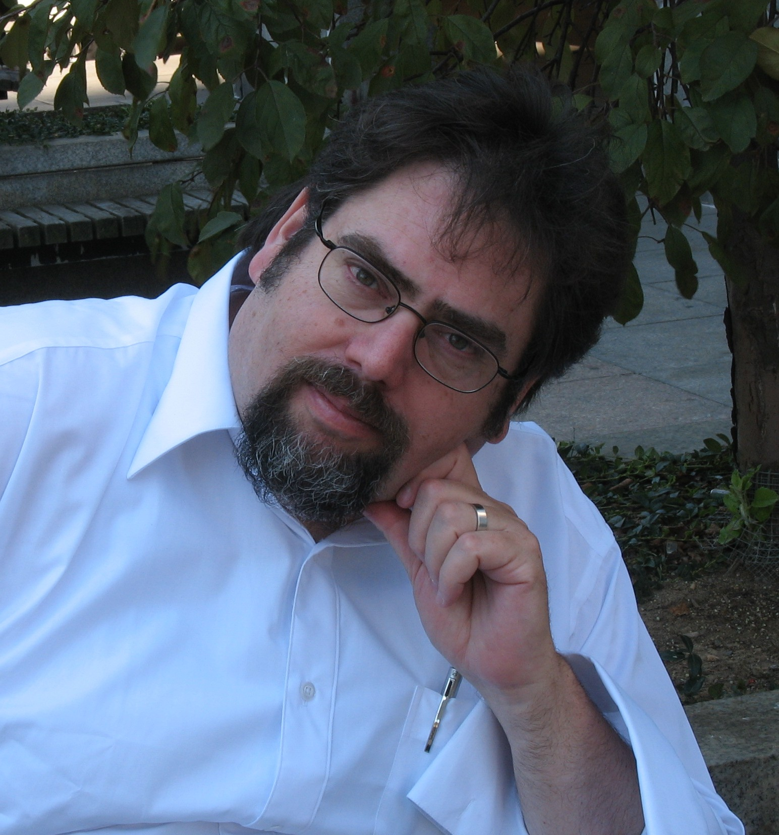 Picture of Lawrence M. Schoen